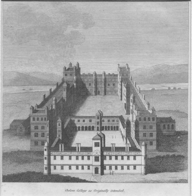 Chelsea College as originally intended; representation of Chelsea College (17th century) which was never completed.